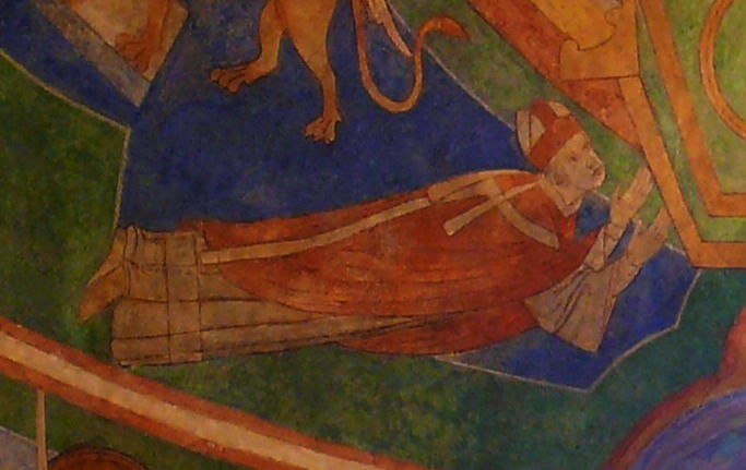 Arnold von Wied, archbishop of Cologne and founder of the double church in Bonn-Schwarzrheindorf, Germany. Detail of fresco in the choir of the upper church in Schwarzrheindorf (12thc).